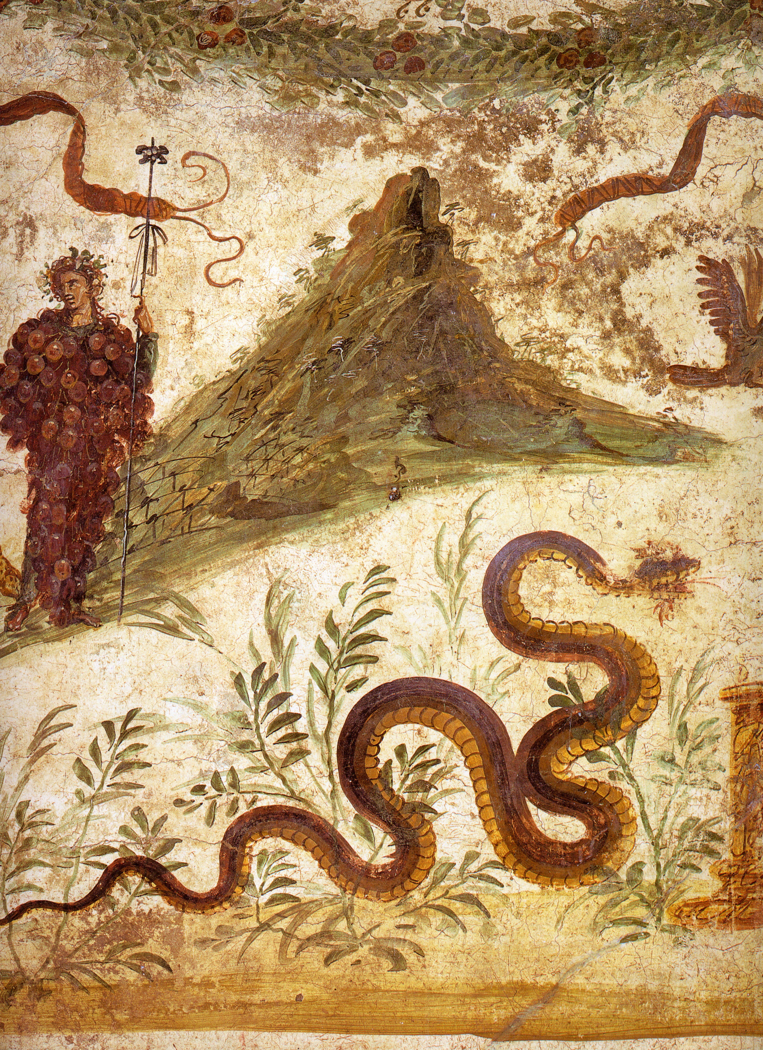 Roman fresco showing Bacchus (on the left) and serpent (Agathodaimon) from the Casa del Centenario in Pompeii. Museo Archeologico Nazionale (Naples)